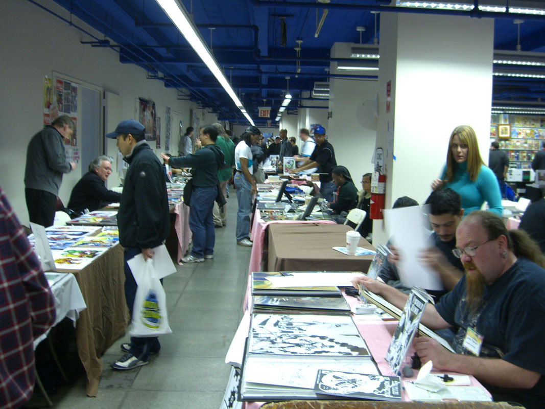 Shot of Artist’s Alley at the November 2008 Big Apple Convention, which is held at Manhattan’s Hotel Pennsylvania’s Penn Plaza Pavilion. At far left are artists Rich Buckler and Russ Heath.